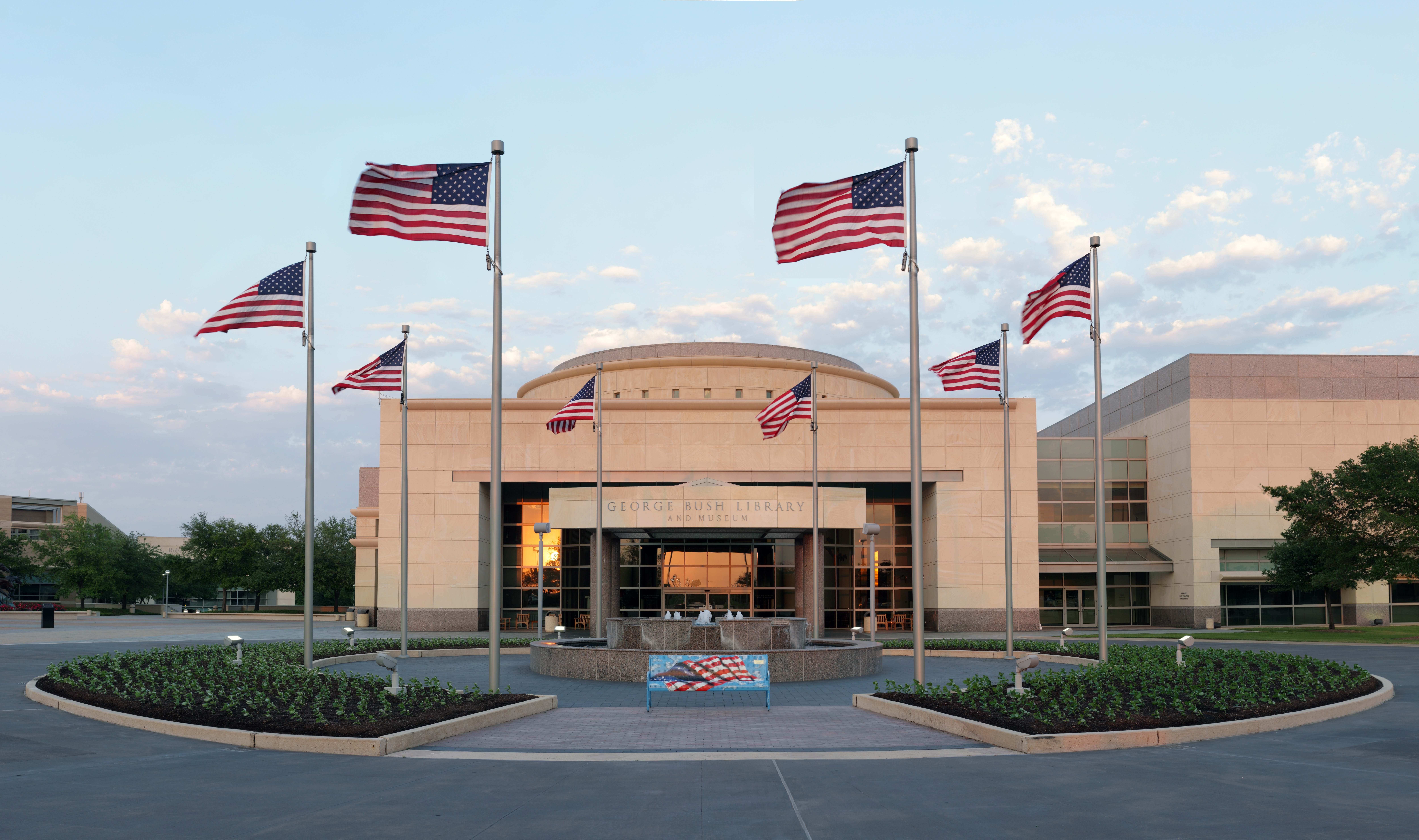 The George Bush Presidential Library on the campus of Texas A&M University. 9x3 stitched panorama